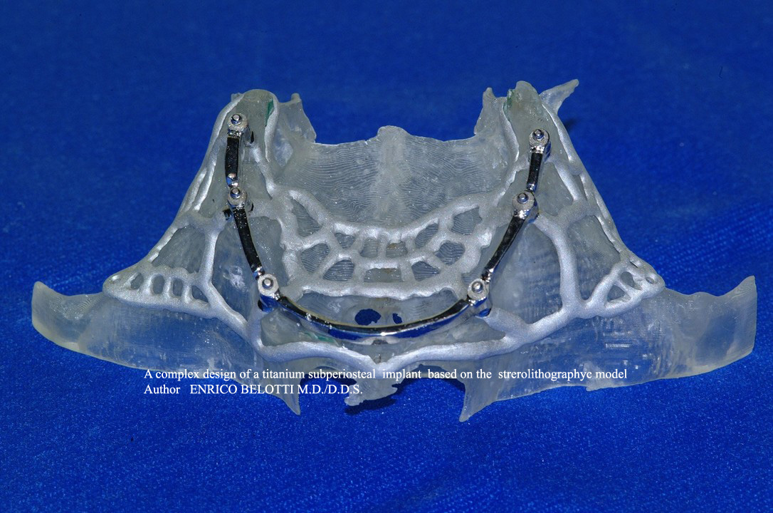 A complex design of a titanium subperiosteal implant based on the strerolithographyc model